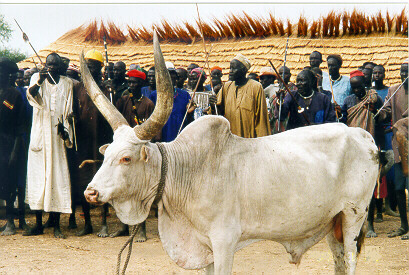 Mabior ('white bull') sacrificed at the conclusion of the Wunlit Peace Conference. Photographed in Wunlit by William O. Lowrey in 1999.